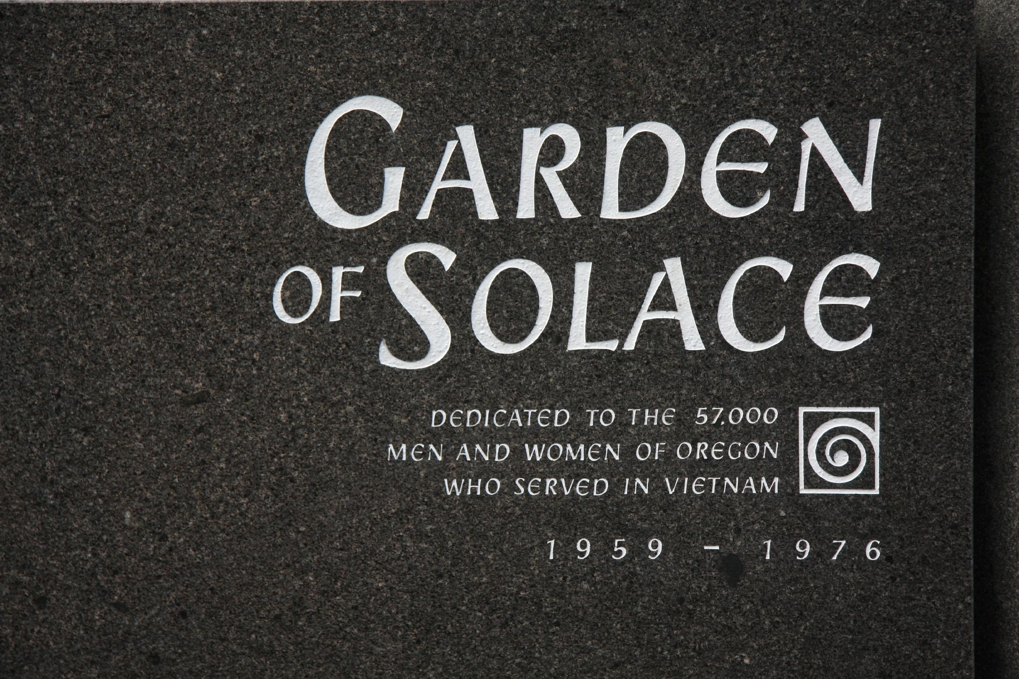 The sign at the entrance to the Oregon Vietnam Veterans Memorial located in Washington Park, Portland, Oregon, US.